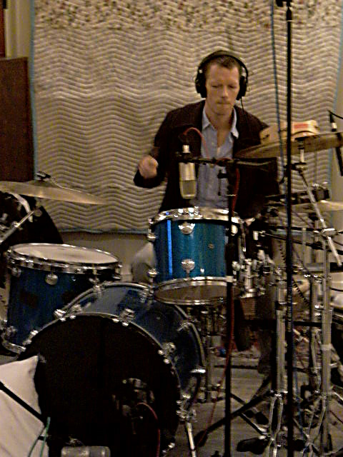 Photo Taken By Michael Loveless 2008. Dave Krusen at Stuio Litho